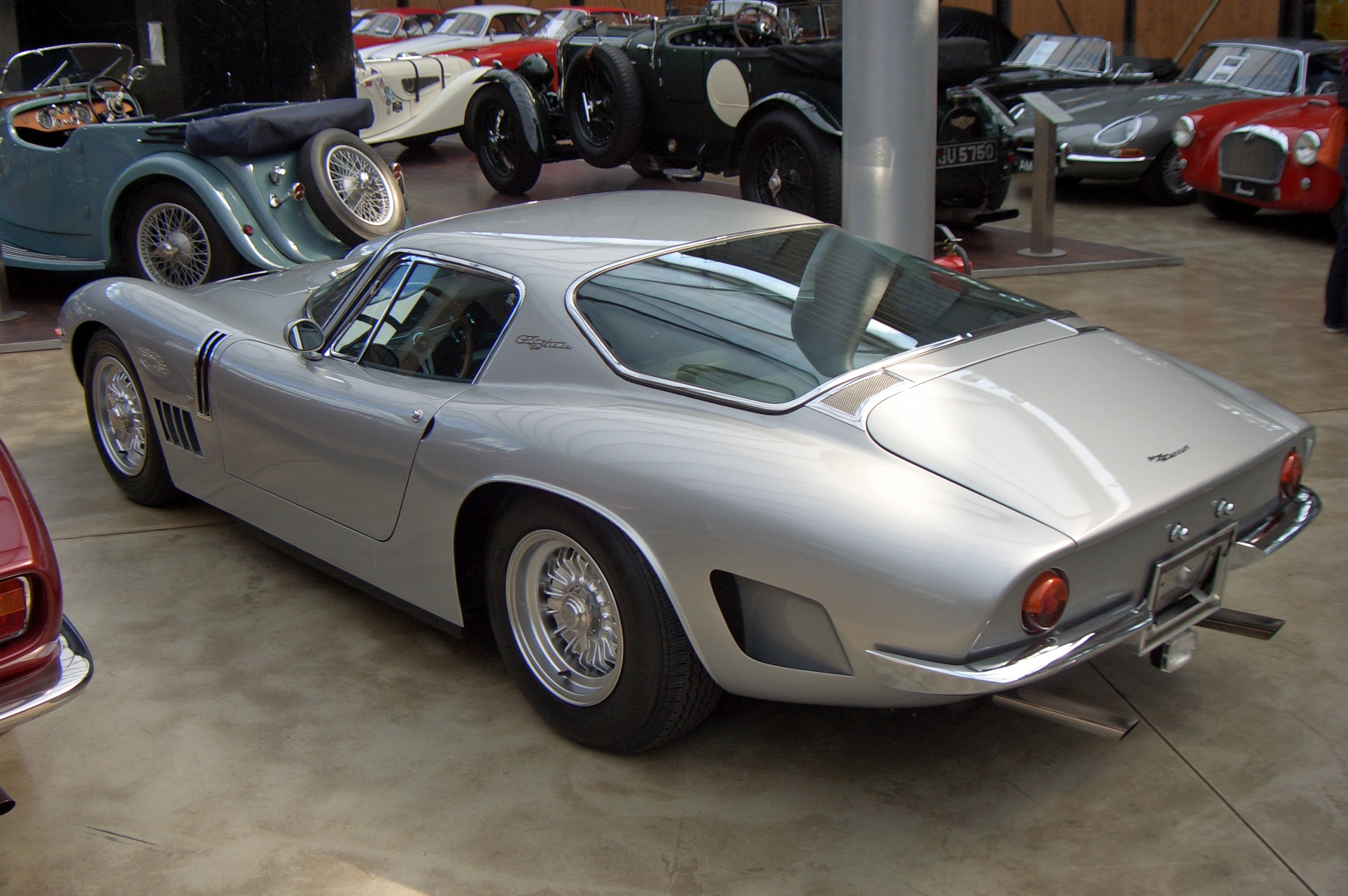 Iso Grifo-based Bizzarrini 5300 GT Strada, 1966, seen at CLASSIC REMISE, Duesseldorf, Germany